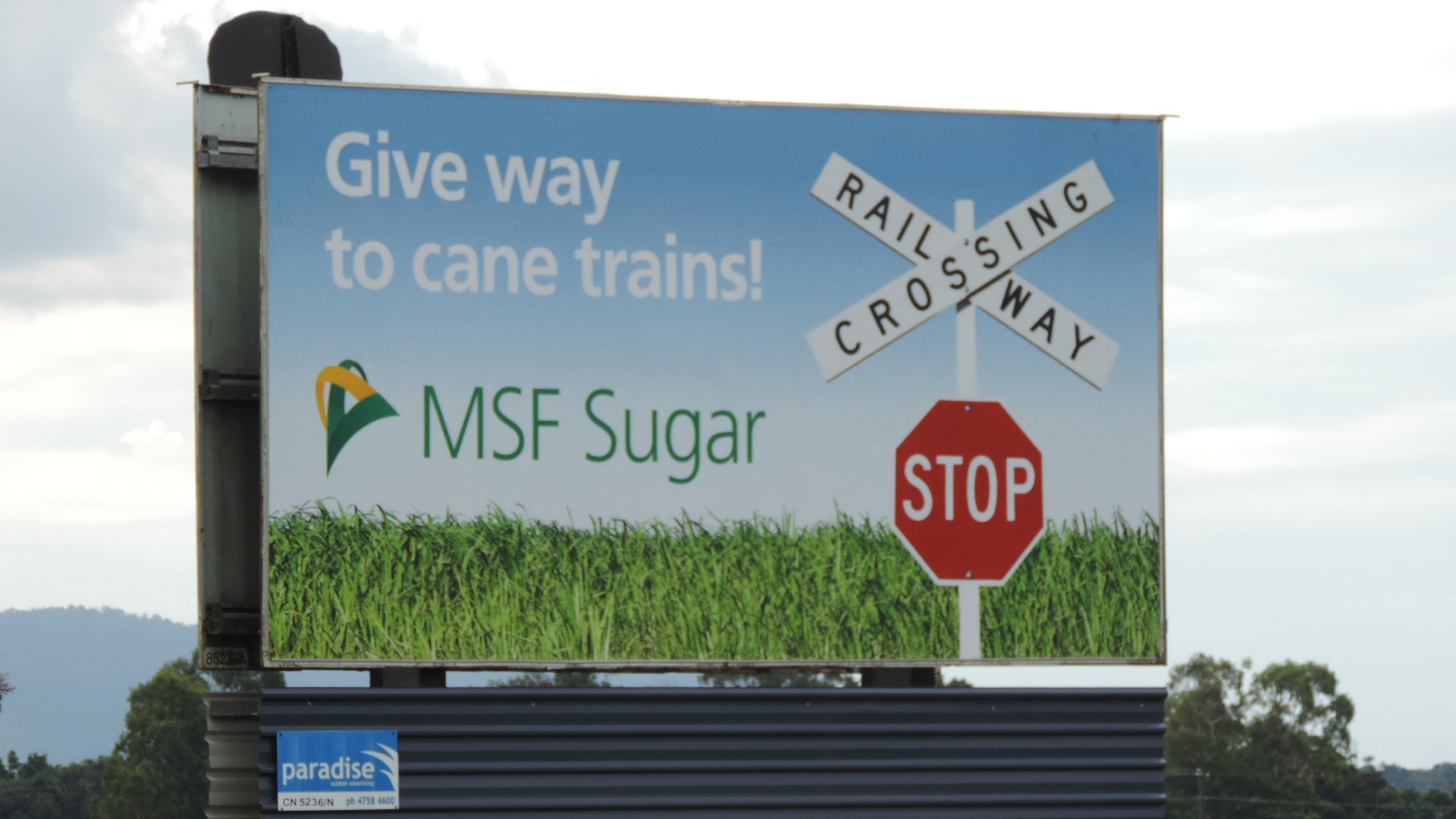 A sign warning people to give way to cane trains crossing the road